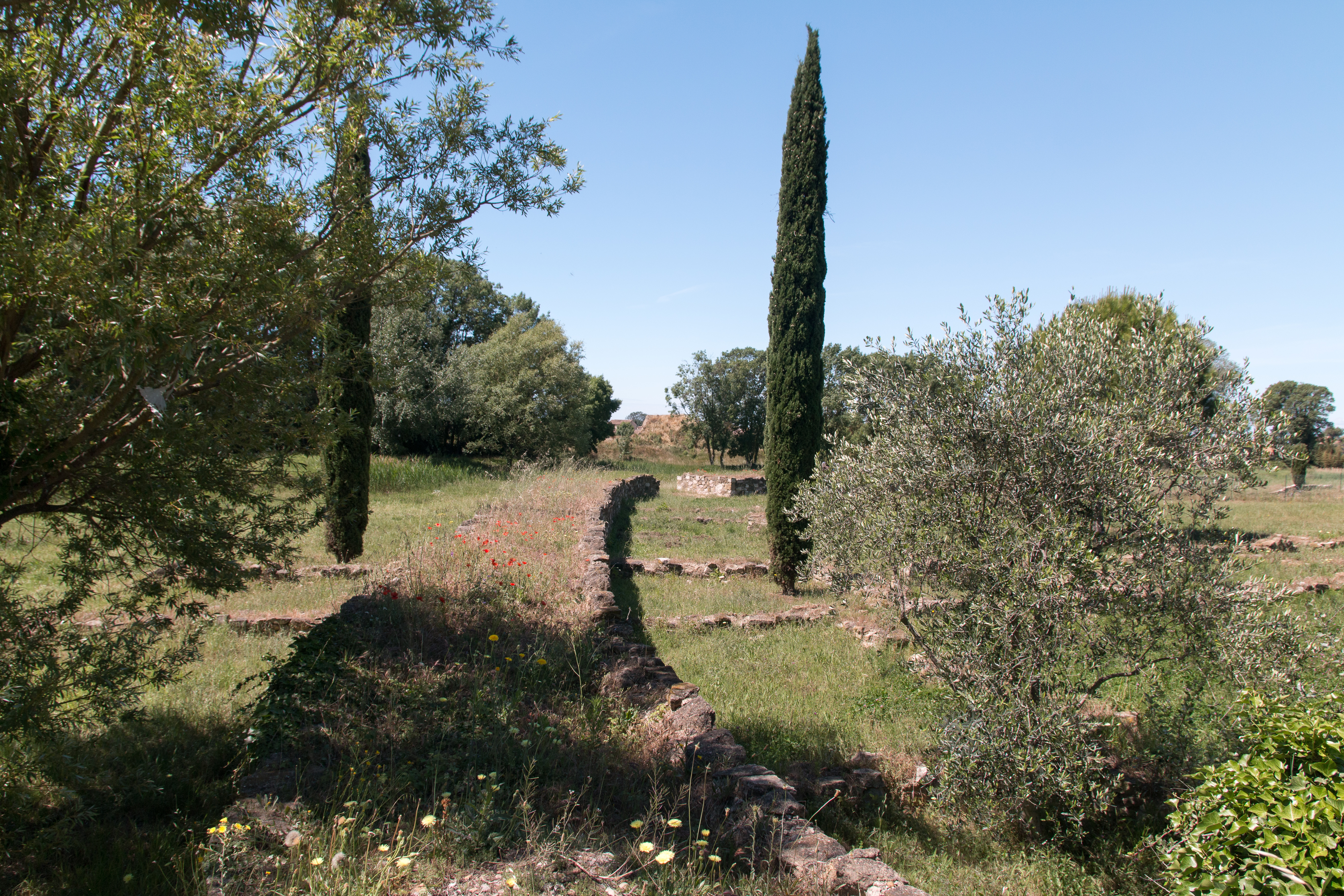 Gateway to the port in the middle of the south wall.